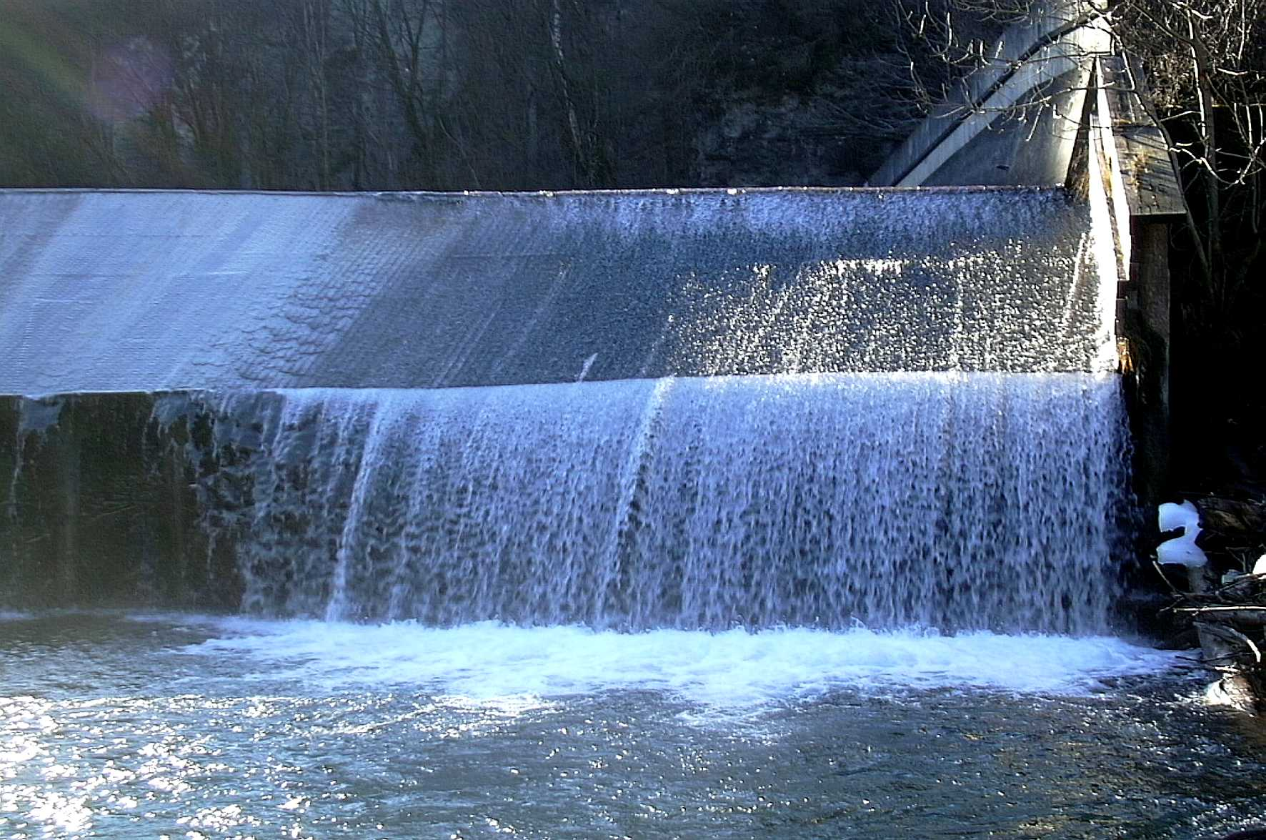 the Bretterkeller weir in the Sill river in the Paschberg area south of Innsbruck